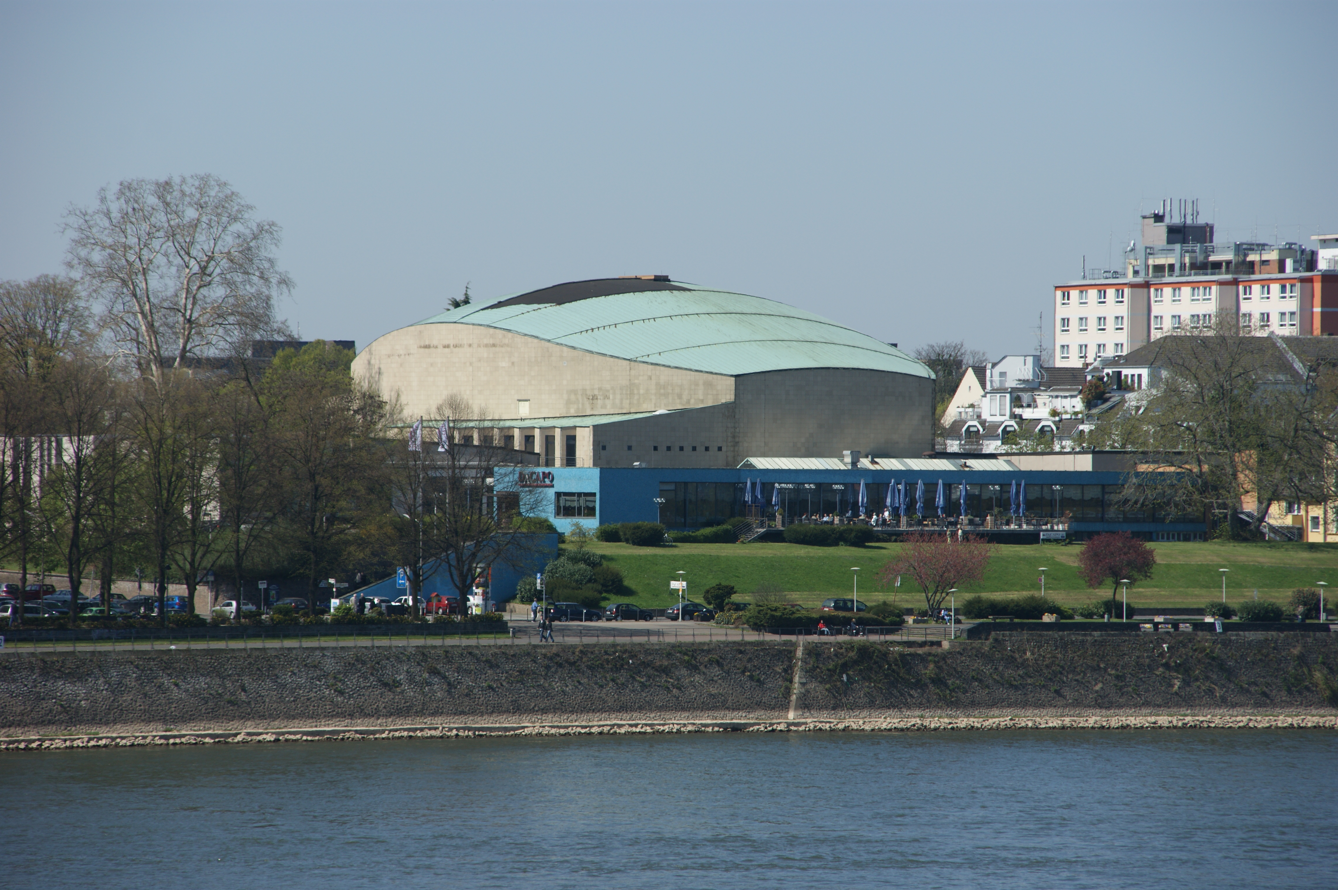 Beethovenhalle, conference and concert hall in Bonn